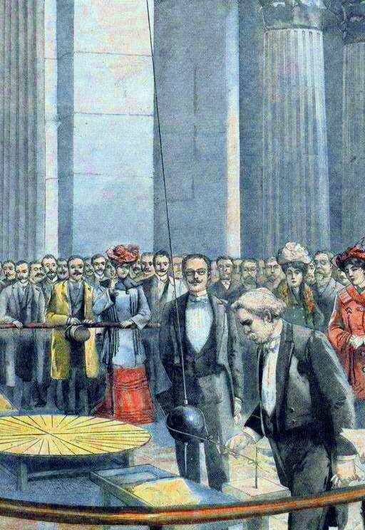 An excerpt from the cover of an illustrated supplement to the magazine Petit Parisien" dated November 2, 1902, for the fiftieth anniversary of the demonstration by Léon Foucault of the rotation of the Earth hanging a pendulum at the dome of the Panthéon in Paris in 1851. The pendulum is released without any further disturbance than natural gravity by burning a cord. The initial velocity is nil relative to the Earth, but the pendulum does not return in the same plane but slightly offset demonstrating the rotation of the Earth relative to the celestial sphere. After one hour the public, in numbers at this event, could see that the plane of oscillation had shifted 11°. The image is slightly reworked compared to the original using Gimp to extract the detail of the launch and enhance colors, contrast and white balance.